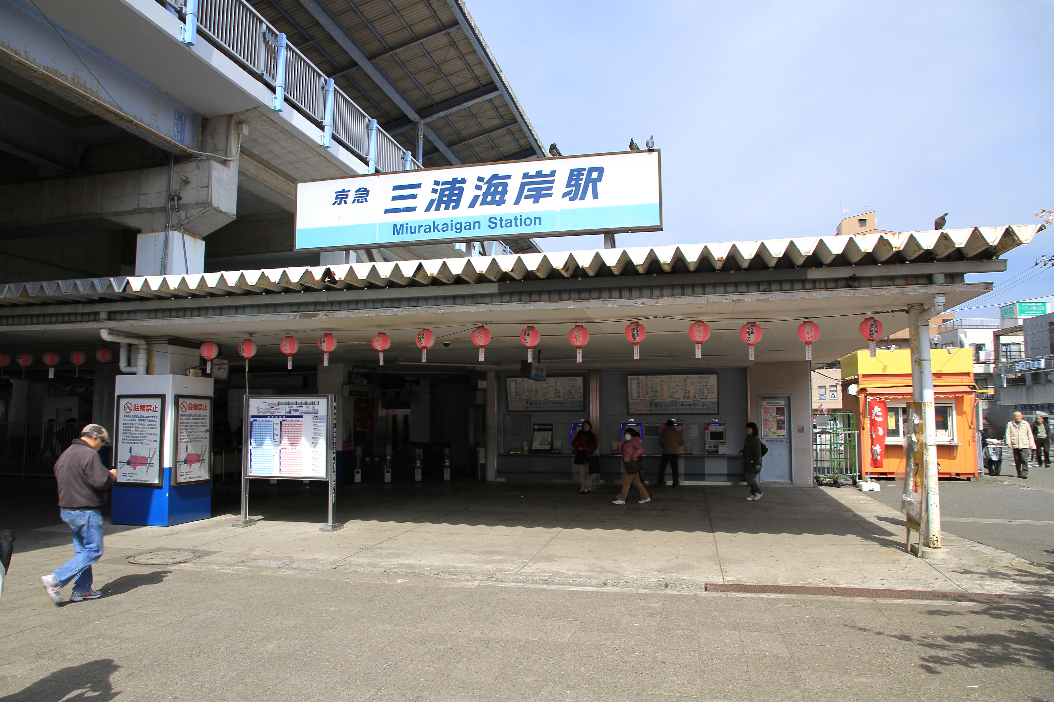 Miurakaigan Station in Kanagawa Prefecture, Japan